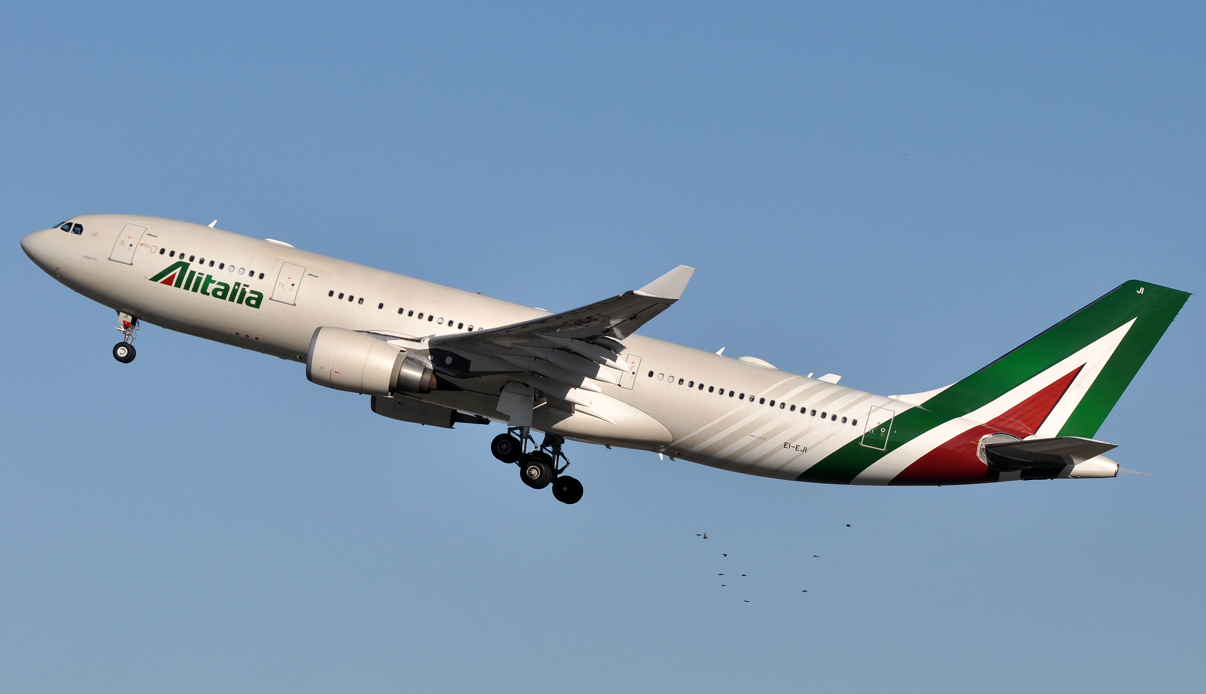 Alitalia Airbus A330-200 at Fiumicino Airport